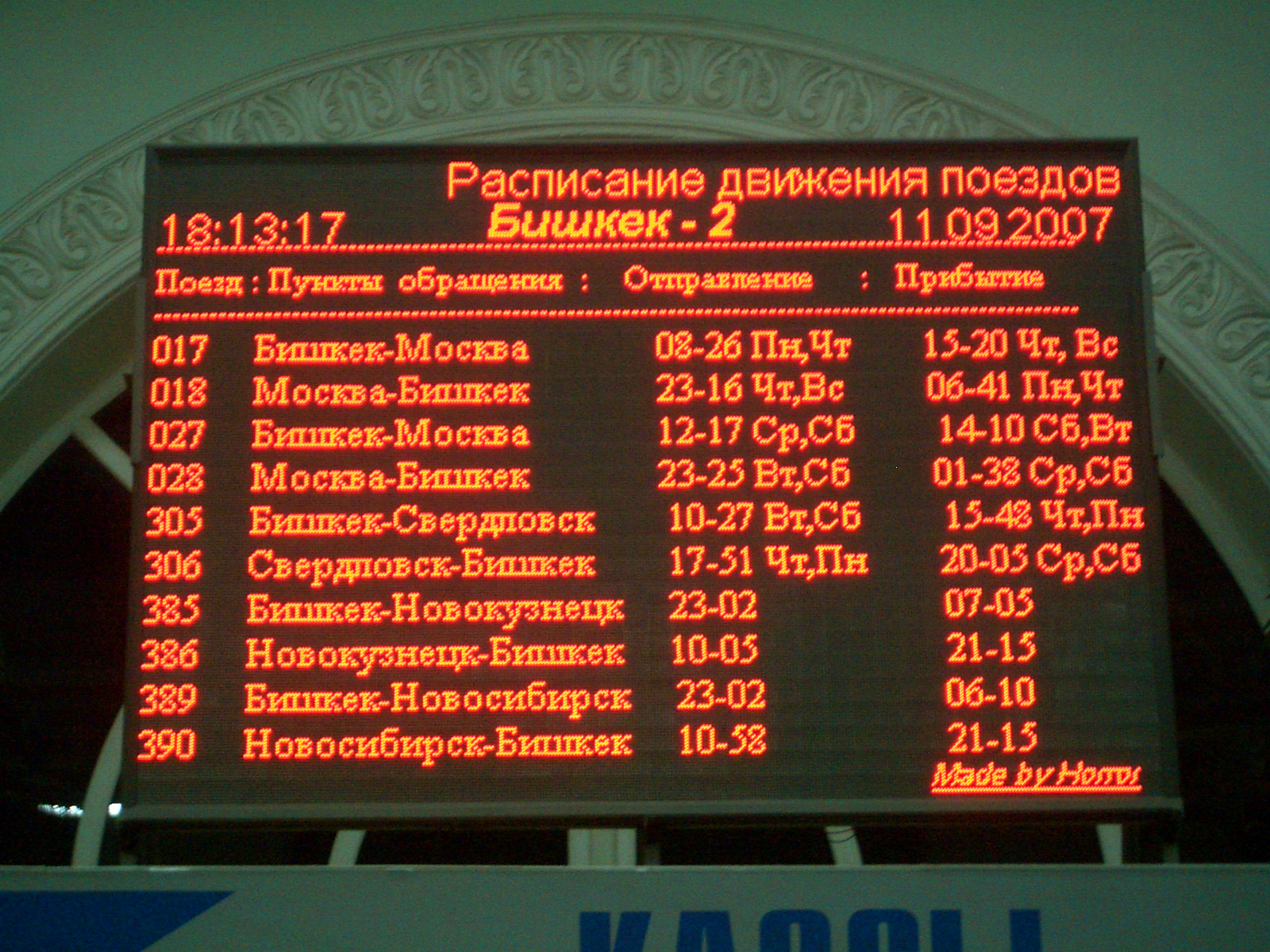 Inside Bishkek-2, Bishkek's main train station. The electronic display shows the schedule of long-distance trains.